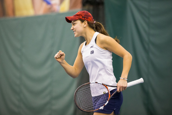 Quinn Gleason winning a point for the University of Notre Dame tennis team